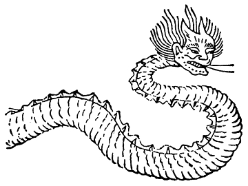 "Zhuyin" (燭陰, a giant red draconic solar deity in Chinese mythology) from the Shan Hai Jing (山海经, Chinese picture)